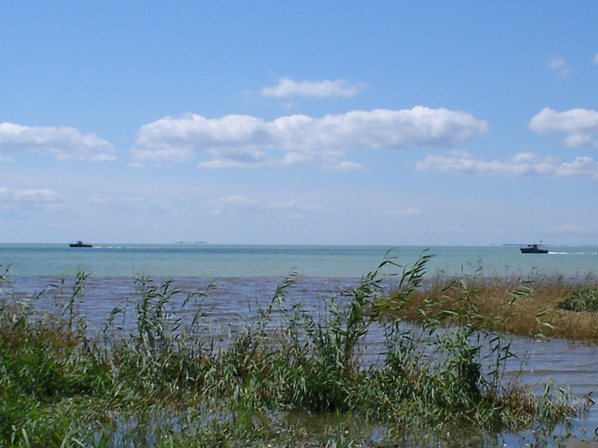 Lake Sartlan, near Taskaevo